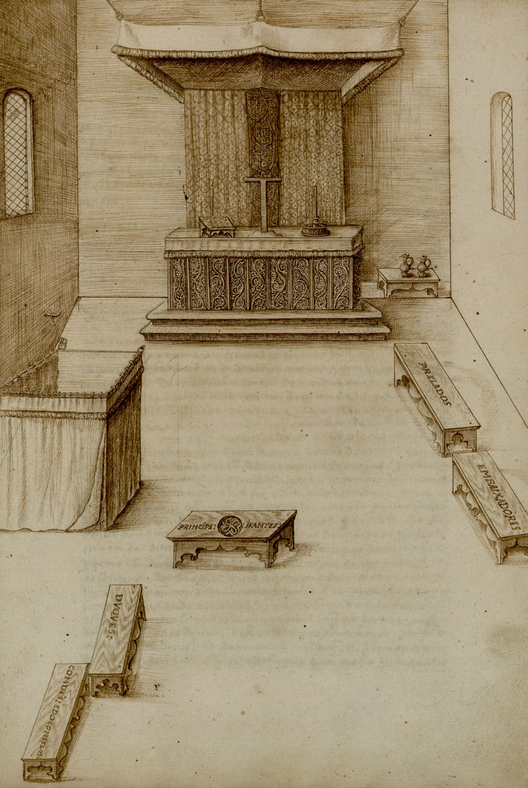 Seating arrangements in the King's Chapel -- King Afonso V of Portugal.